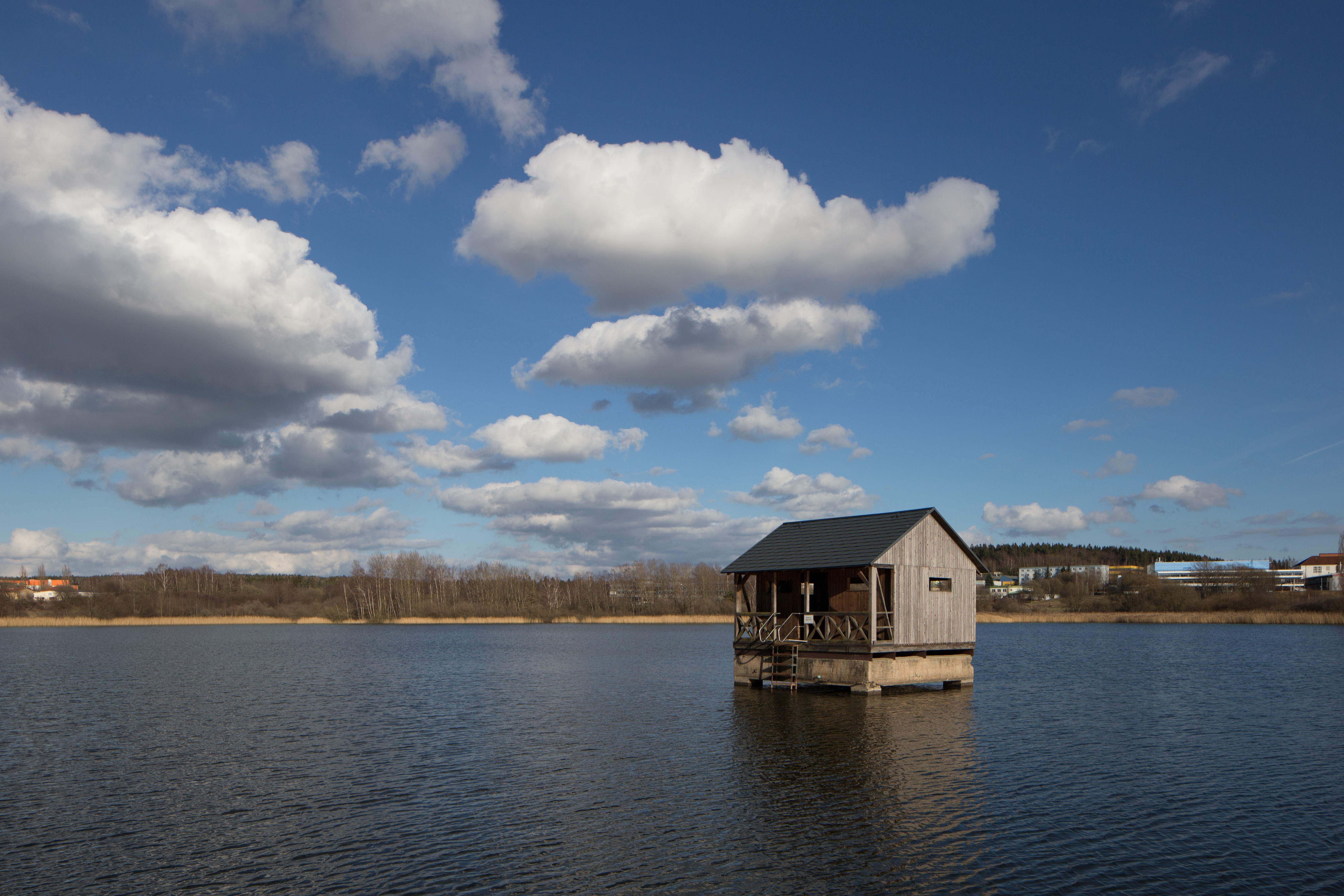 Nice spring-day at the "Großer Teich" in Ilmenau, Germany